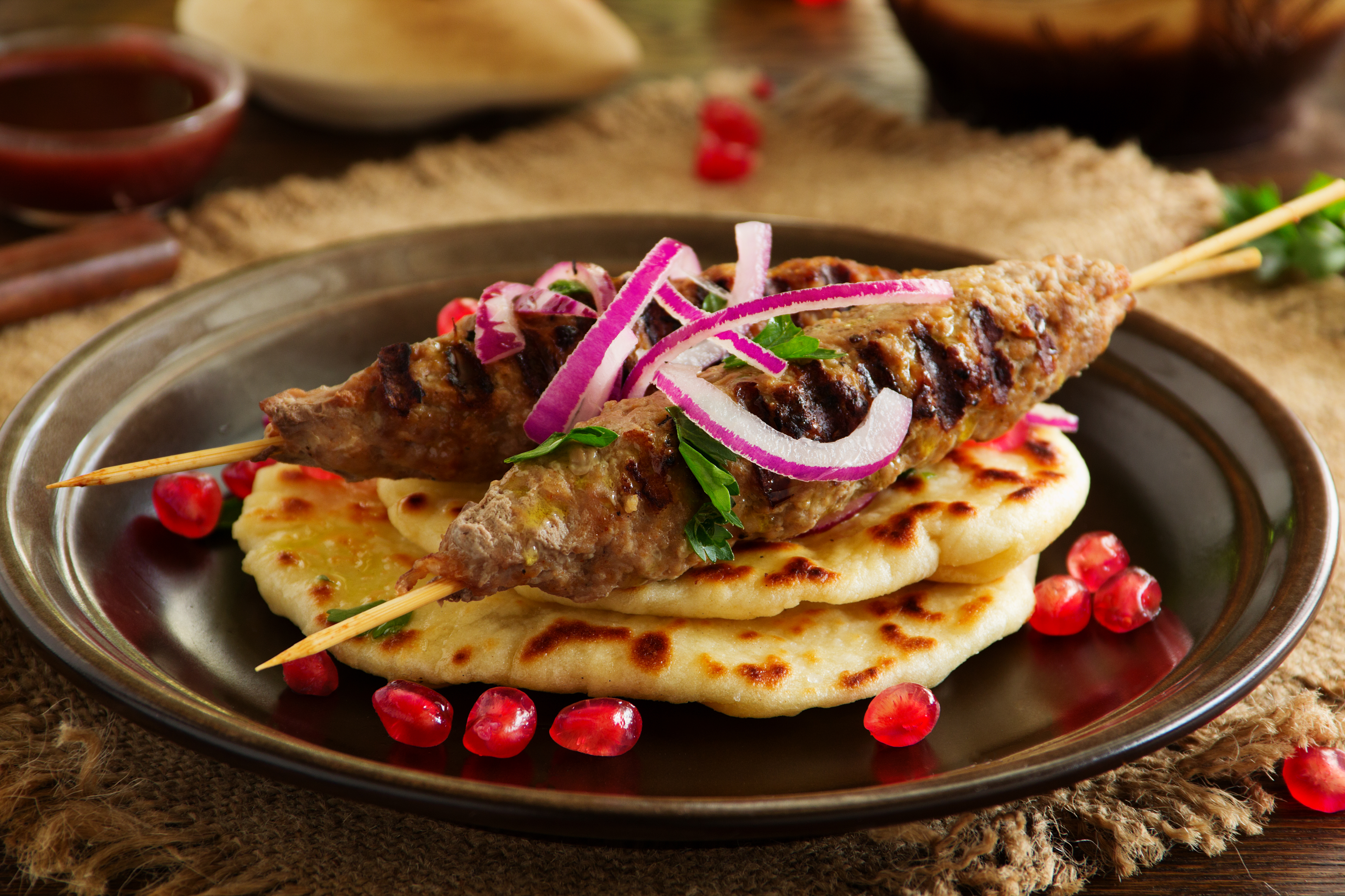 Kebab of lamb, with homemade bread.